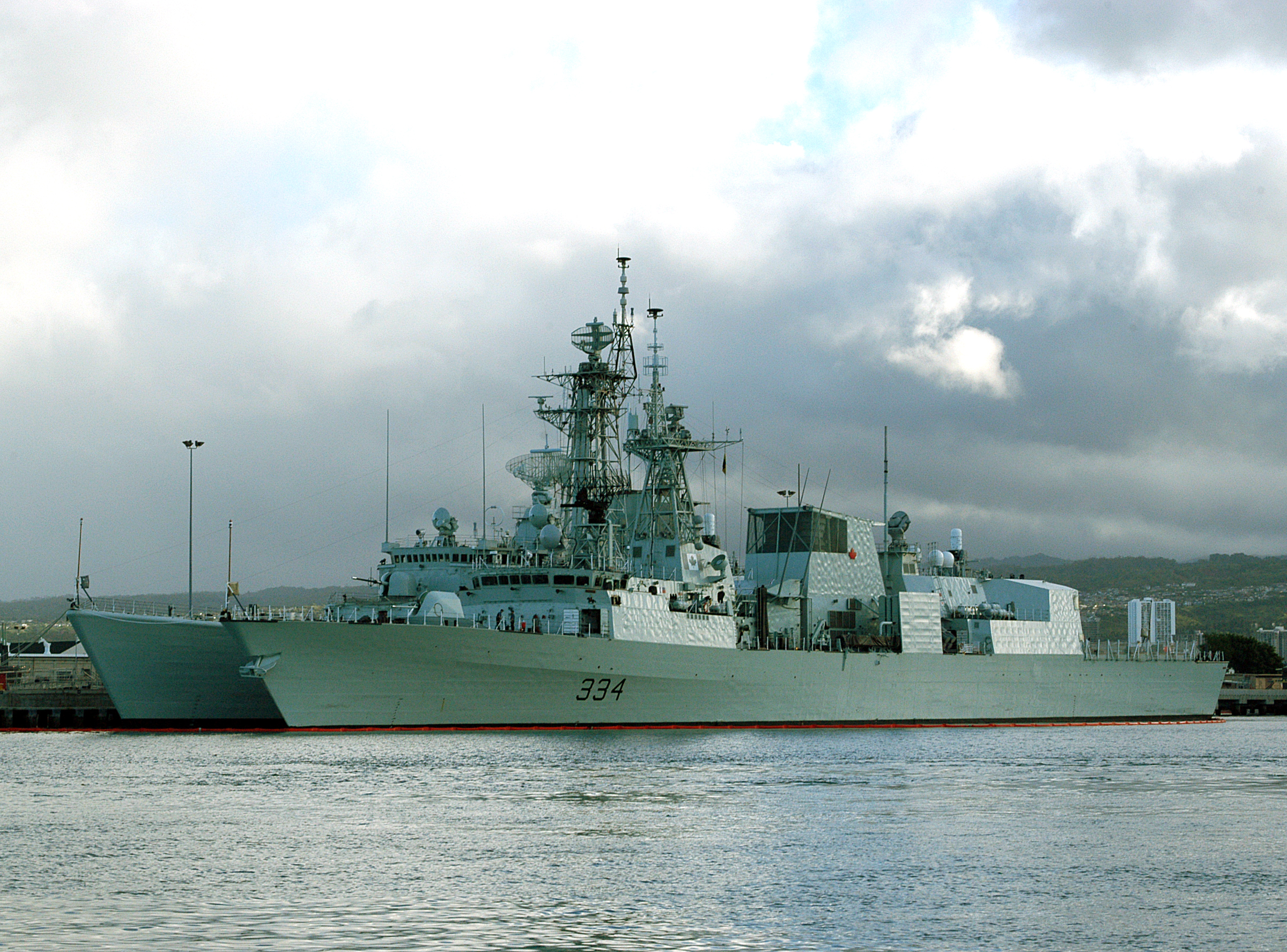 The Canadian ships HMCS Algonquin (DDG 283), left and HMCS Regina (FFH 334), right, sit pierside at Naval Station Pearl Harbor, Hawaii, on 2 July 2004. The ships are participating in this year's Rim of the Pacific (RIMPAC) exercise. RIMPAC is the largest international maritime exercise in the waters around the Hawaiian Islands. This year’s exercise includes seven participating nations; Australia, Canada, Chile, Japan, South Korea, United Kingdom and United States. RIMPAC is intended to enhance the tactical proficiency of participating units in a wide array of combined operations at sea, while enhancing stability in the Pacific Rim region.